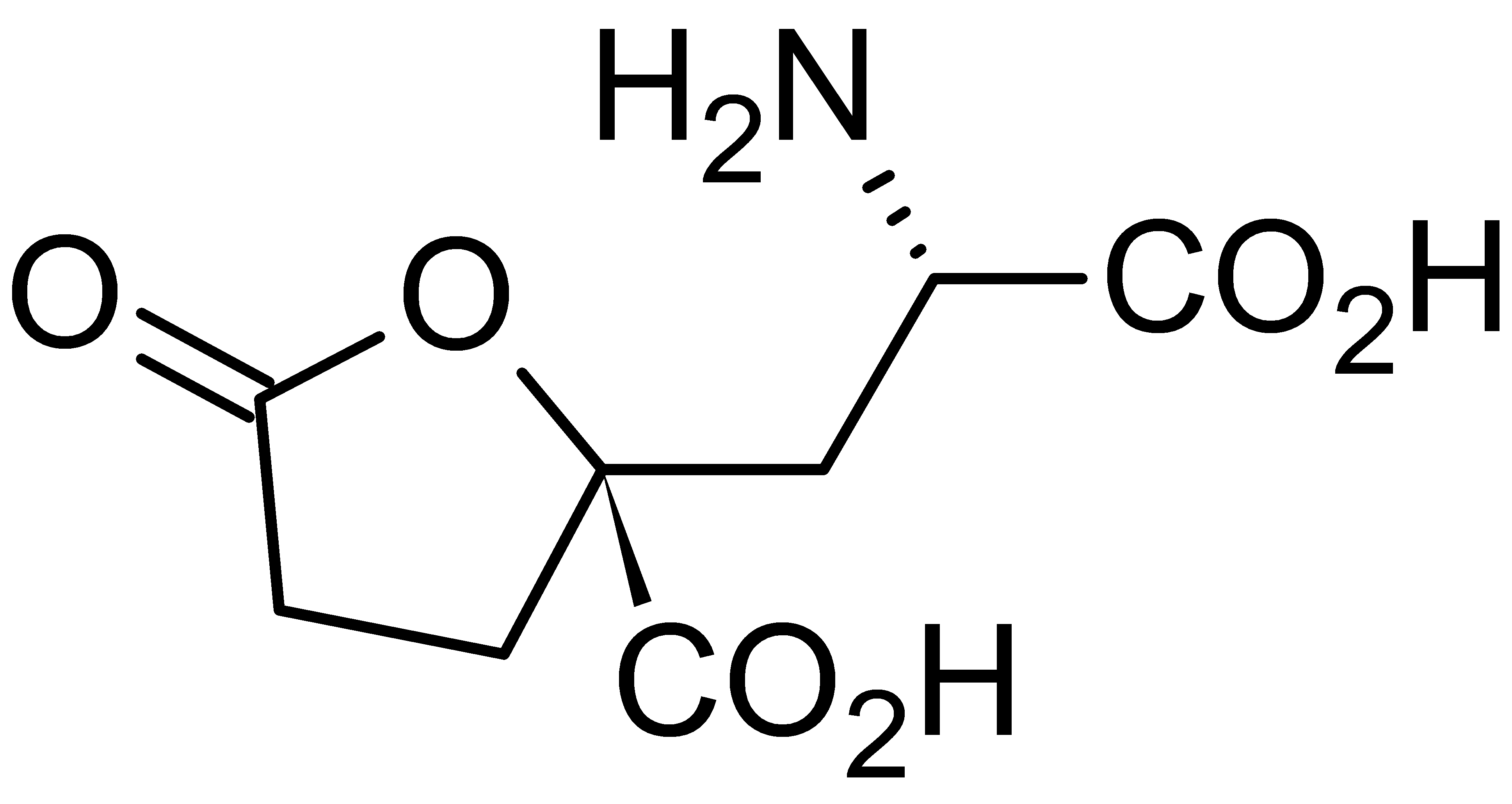 A 2D model of lycoperdic acid, and unusual amino acid found only in Lycoperdon perlatum. See Cohen JL, Chamberlin AR. (2007). "Diastereoselective synthesis of glutamate-appended oxolane rings: synthesis of (s)-(+)-lycoperdic acid". J Org Chem. 2007 Nov 23;72(24):9240–7.